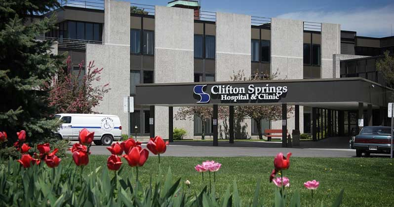 Photograph of Clifton Springs Hospital & Clinic, an affiliate of Rochester Regional Health